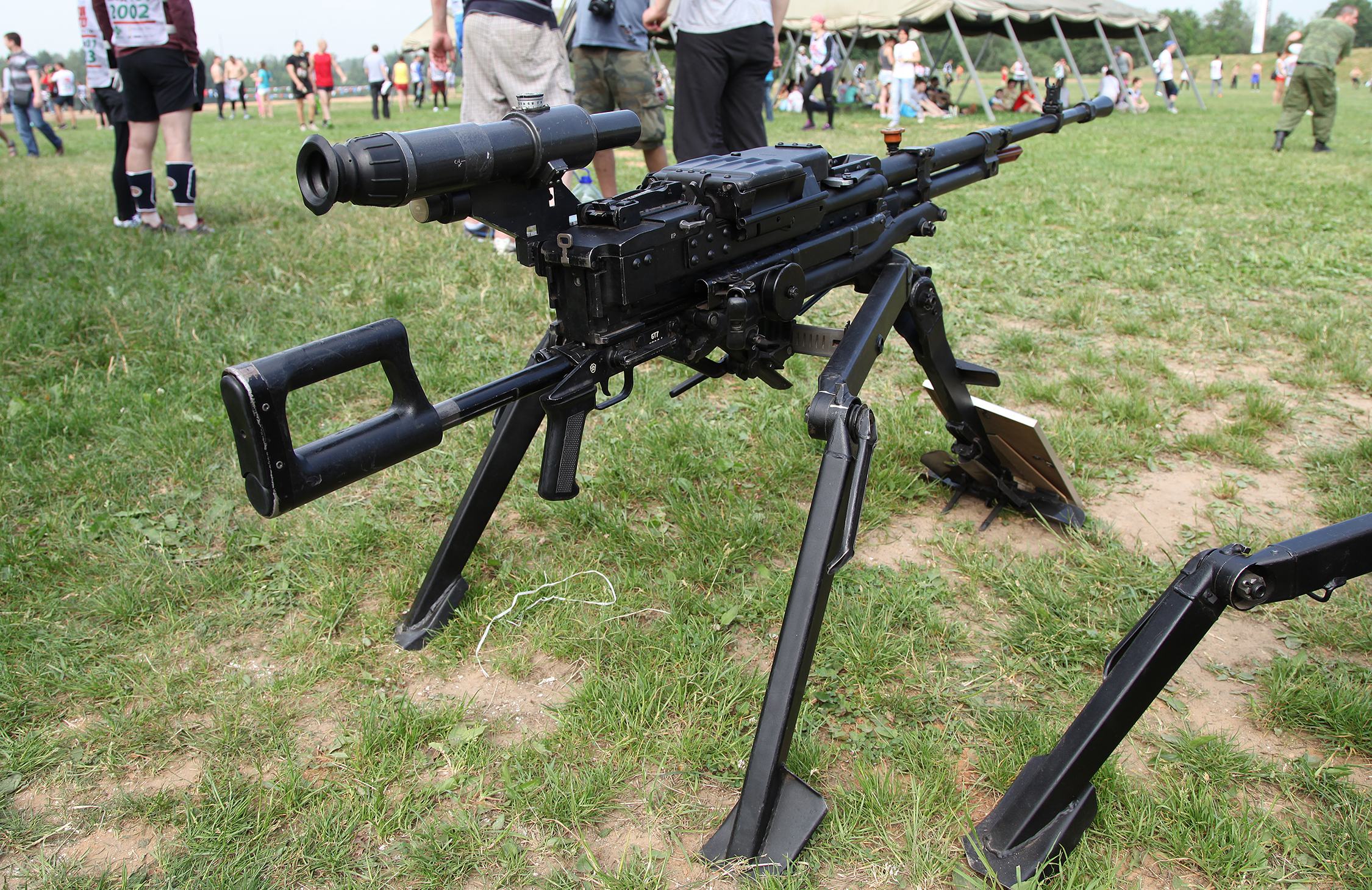 NSV machine gun on 6T7 mount